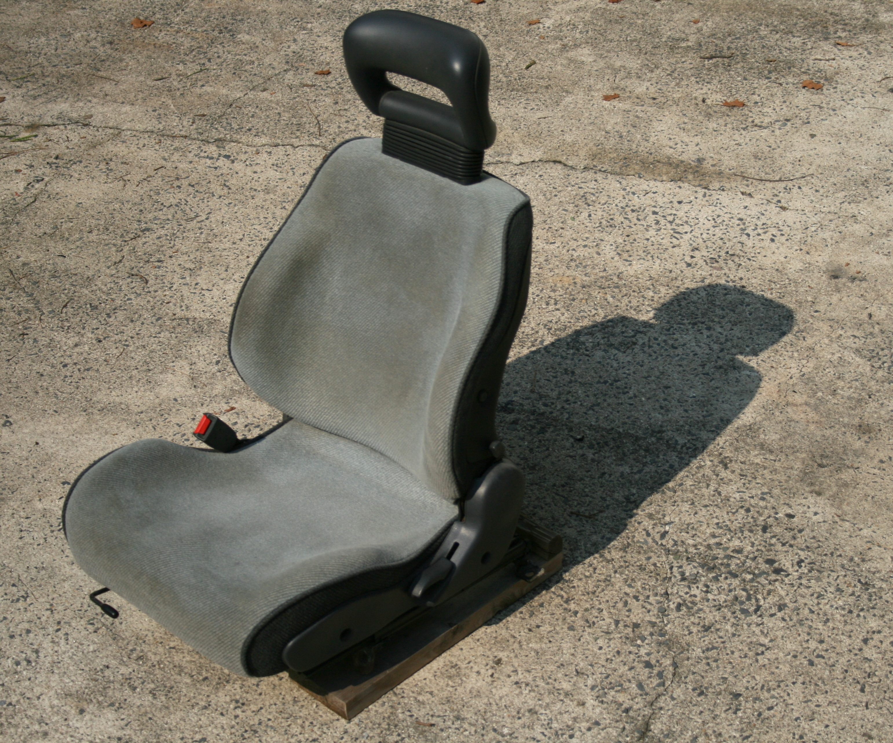 Front-left (driver's) seat extracted from a 1990 Geo Storm.